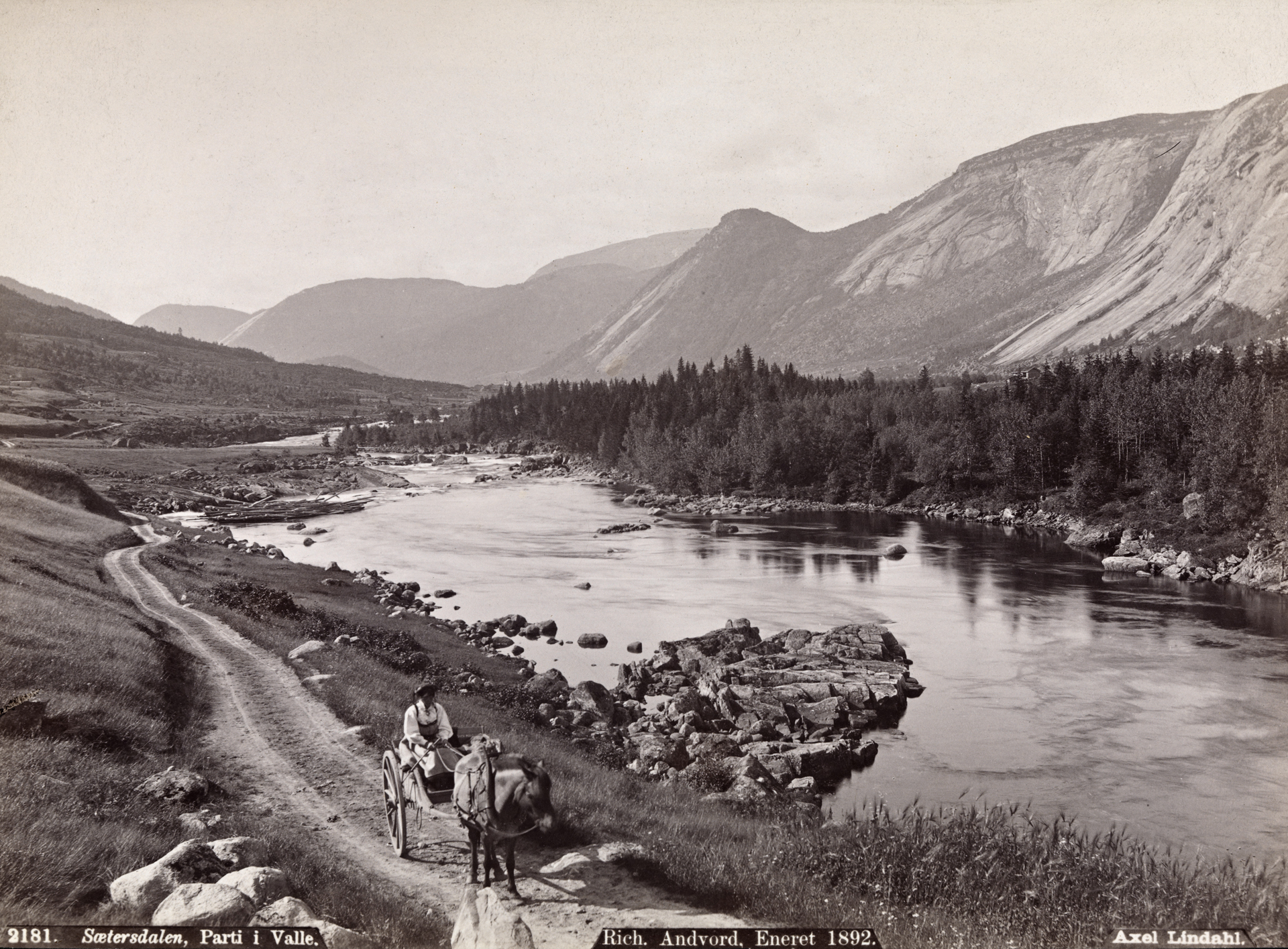 Tittel / Title: 2181. Sætersdalen, Parti i Valle Dato / Date: 1880-1890 Fotograf / Photographer: Axel Lindahl (1841-1906) Utgiver / Publisher: Rich. Andvord, 1892 Sted / Place: Aust-Agder, Setesdal, Valle Eier / Owner Institution: Nasjonalbiblioteket / National Library of Norway Lenke / Link: Bildesignatur / Image Number: bldsa_AL2181